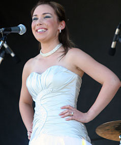 Yulia MacLean in her wedding dress